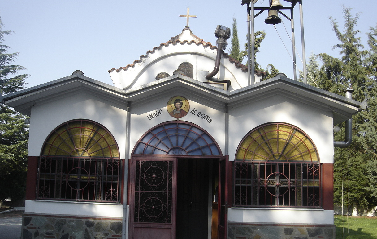 A church on Ganohora.